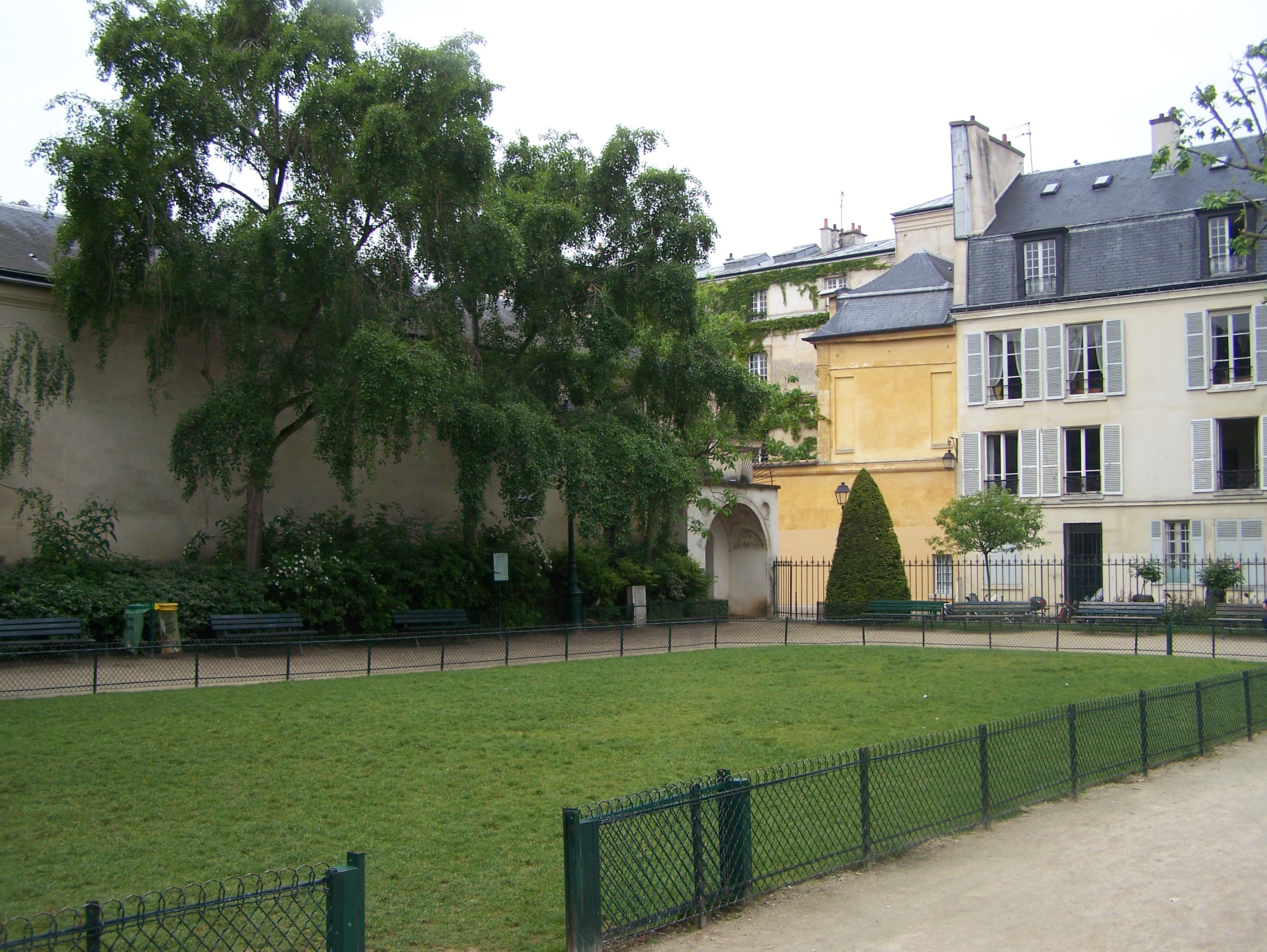 Square Léopold-Achille (Parc royal), rue du Parc-royal, Paris.